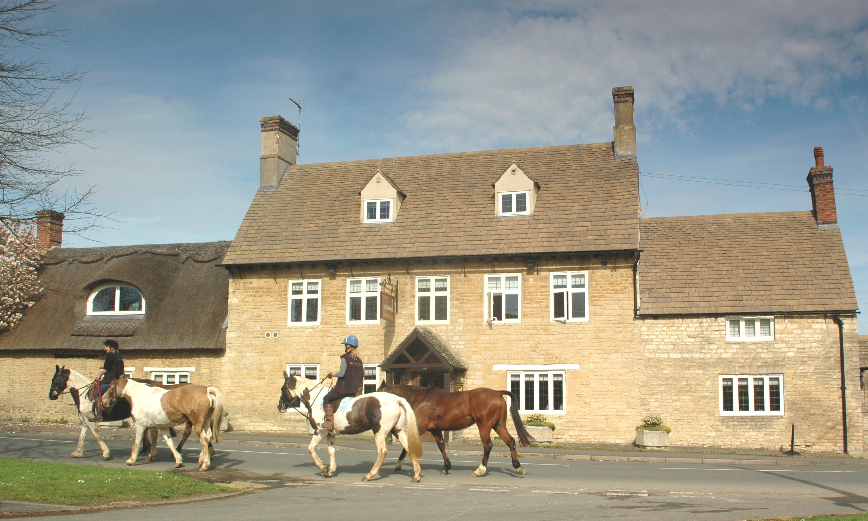 The Dashwood Hotel, Heyford Road, Kirtlington, Oxfordshire, seen from the southeast